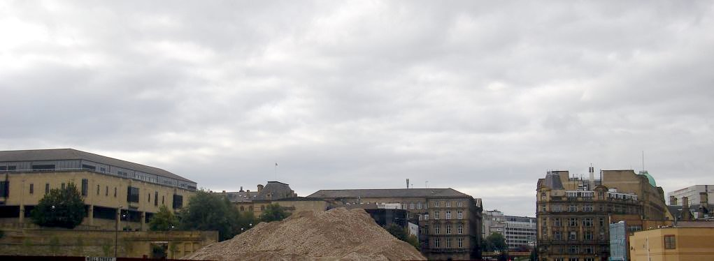 Image of Forster Square, Bradford